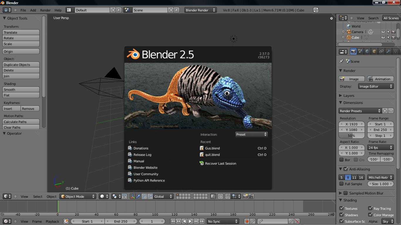 Screenshot of Blender 2.57 main screen